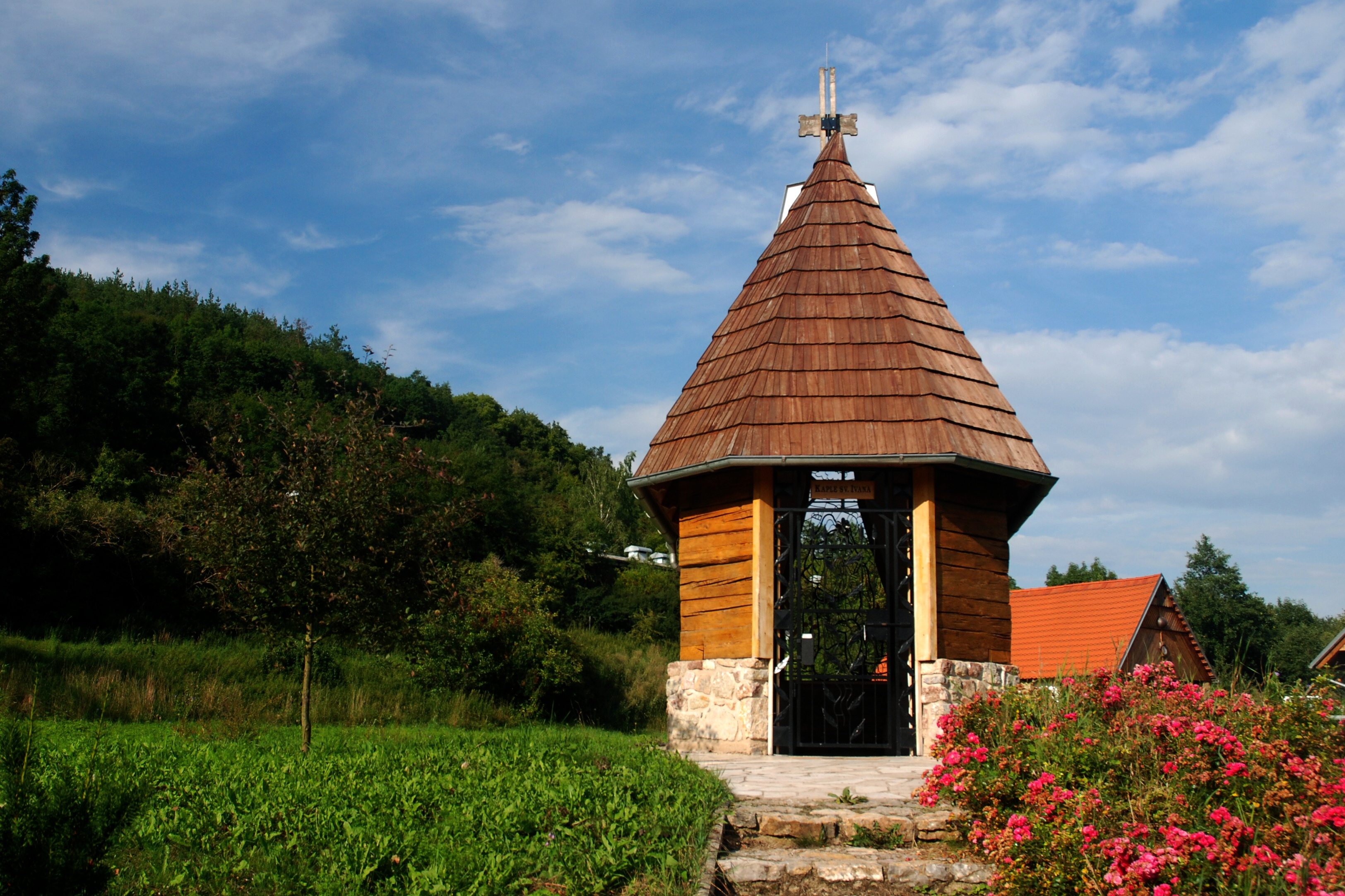 This photograph was taken within the scope of the third year of the 'Czech Municipalities Photographs' grant. Sedlec - kaple sv. Ivana, celkový pohled